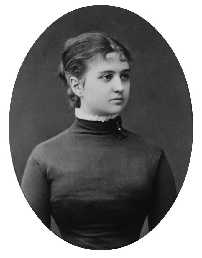 Princess Ekaterina Vladimirovna Golitsyna, nee Musina-Pushkina (1861-1944)